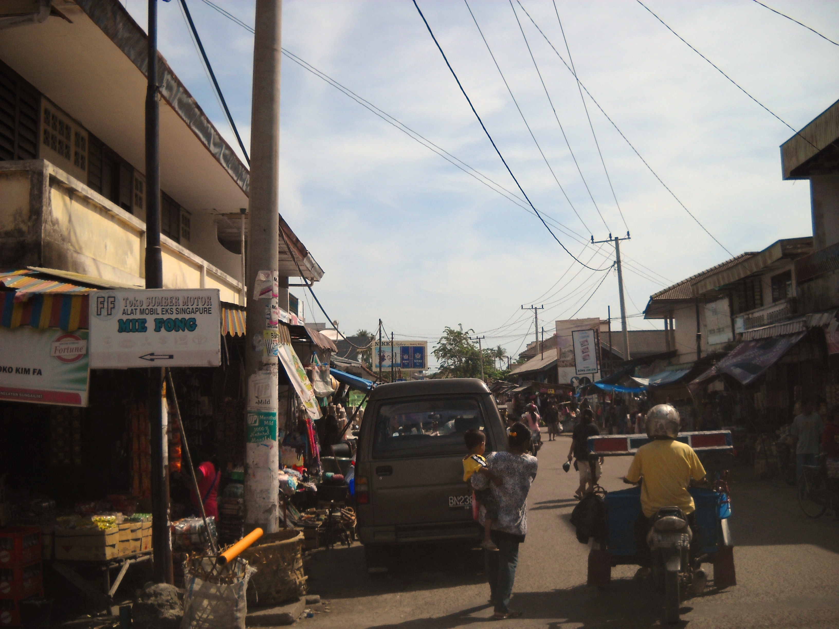 Pasar Sungailiat, Bangka Island.